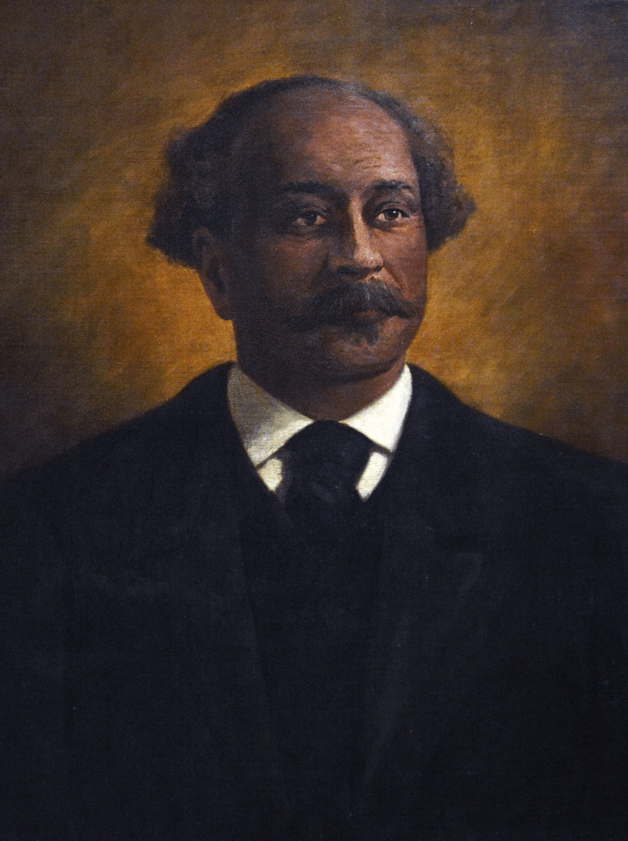 Portrait of Primus Parsons Mason, a prospector, businessman, real estate developer, and philanthropist, who donated the plot of land to Springfield, Massachusetts now known as Mason Square on the condition it be used for the public, and upon his death bequeathed a significant sum of money to start an elderly community for men of all races, it continues today as an affordable retirement center for the elderly. Upon his passing, this portrait was used for the likeness of Mason with an unknown writer of the Republican noting "the collar looks unnatural for he rarely submitted to that uncomfortable article of wear."